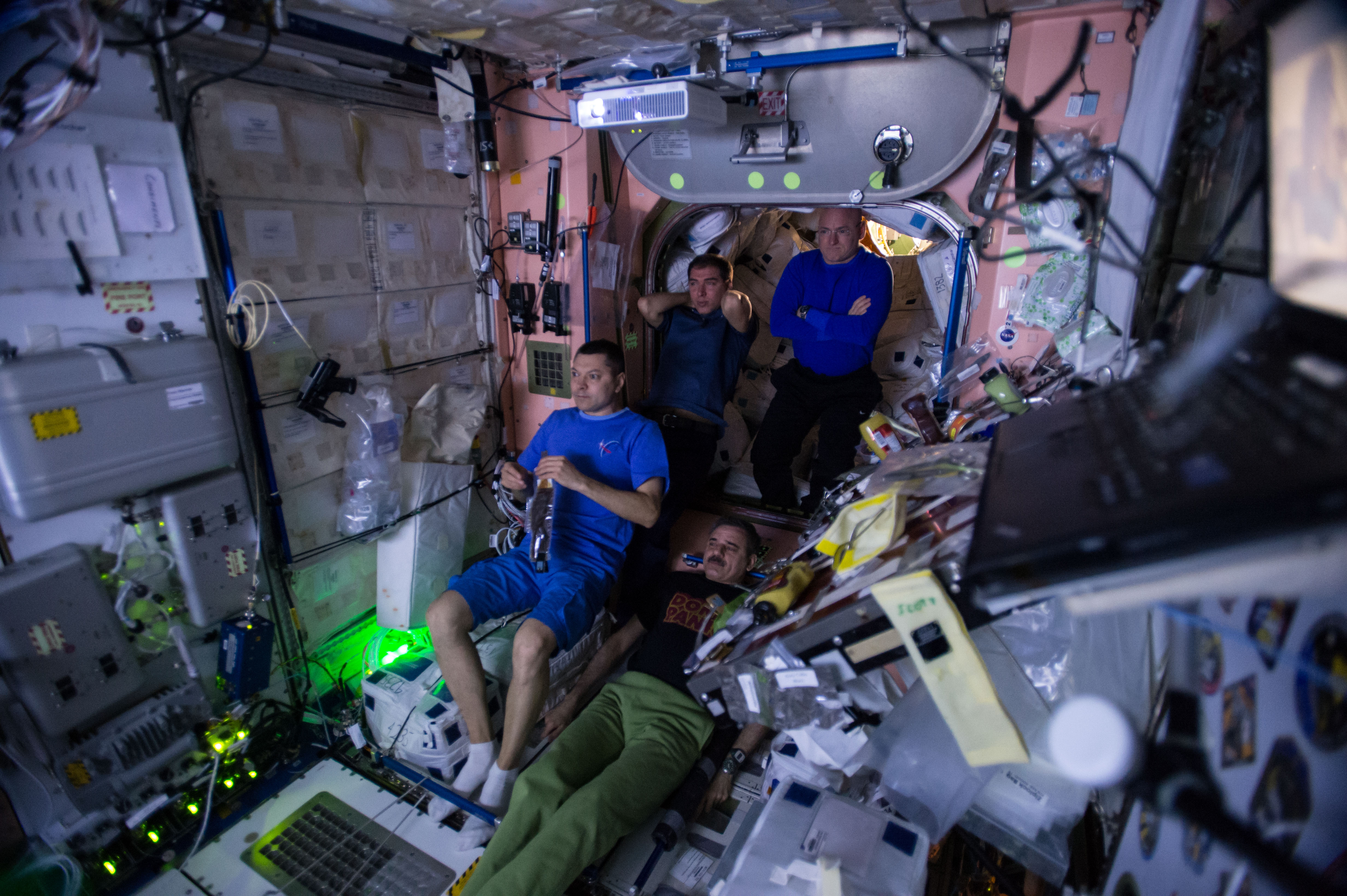 International Space Station Expedition 45 crewmembers watch an advance screening of "The Martian" movie in the Unity Node 1. Clockwise from left, are Russian cosmonauts flight engineers Oleg Kononenko and Sergei Volkov, NASA astronaut Commander Scott Kelly, and cosmonaut Mikhail Kornienko. This image was released on social media.